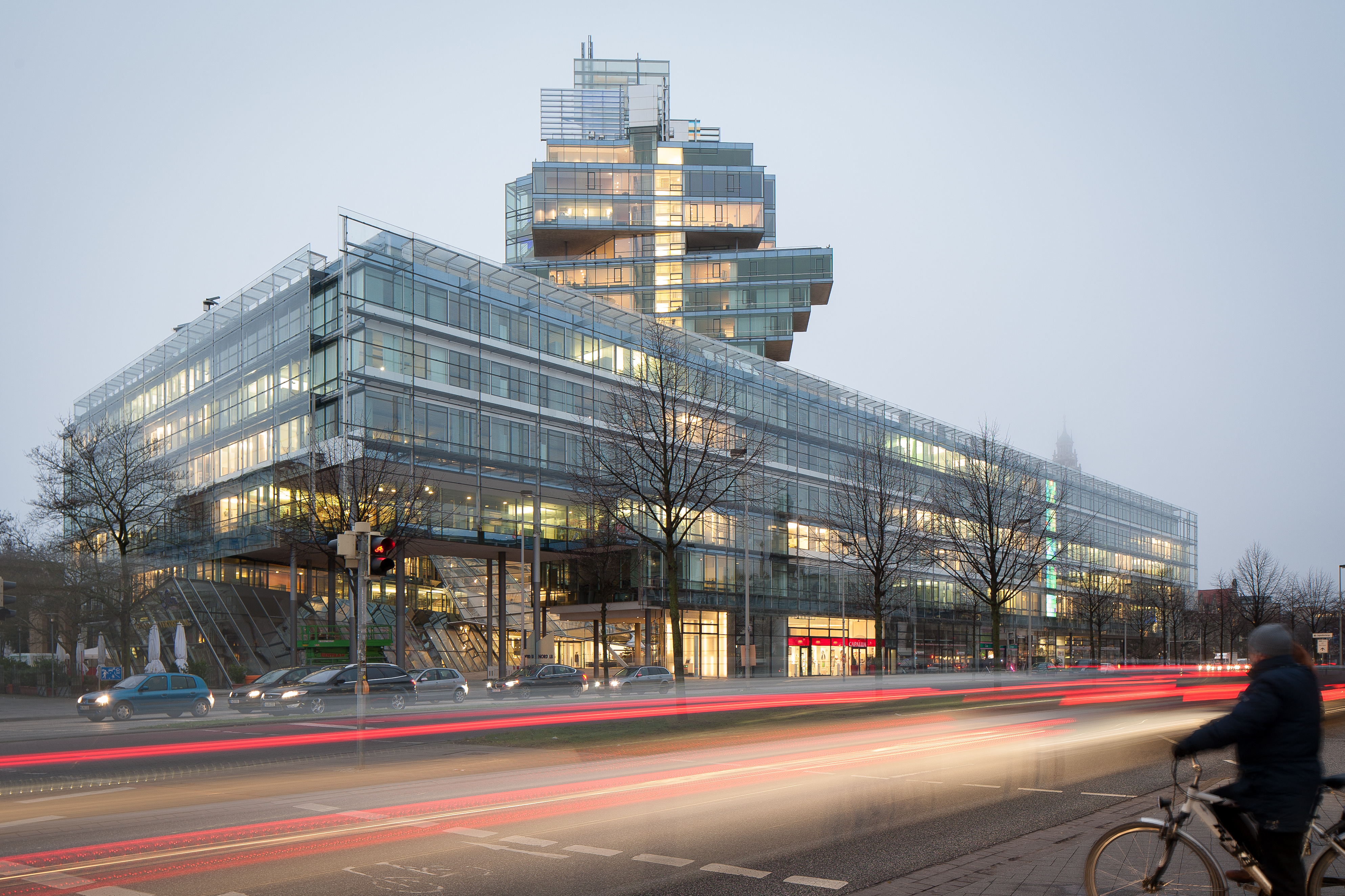 Administration building of the Norddeutsche Landesbank (Nord/LB) located in Hanover, Germany.